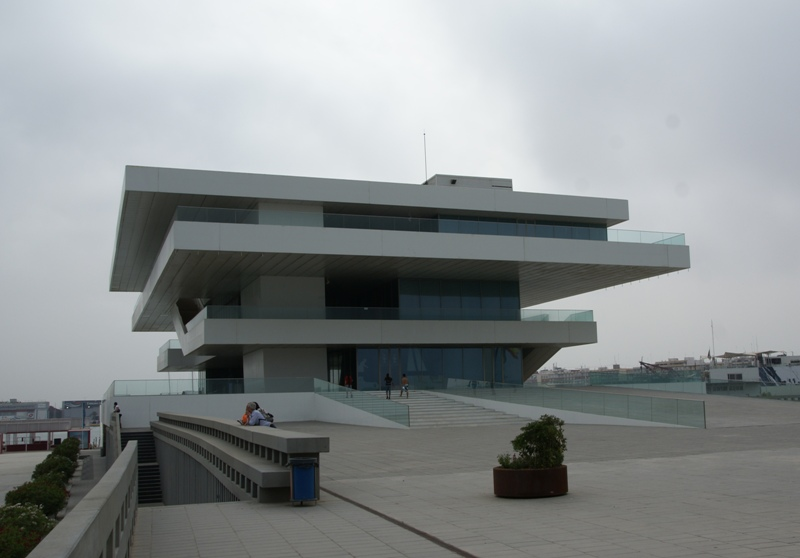 Veles e Vents aka Port America's Cup Foredeck Building, Valencia, Spain.